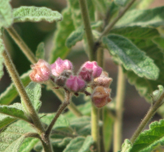 Rulingia magniflora, (culivated, labelled) Geelong Botanic Gardens Victoria, Australia